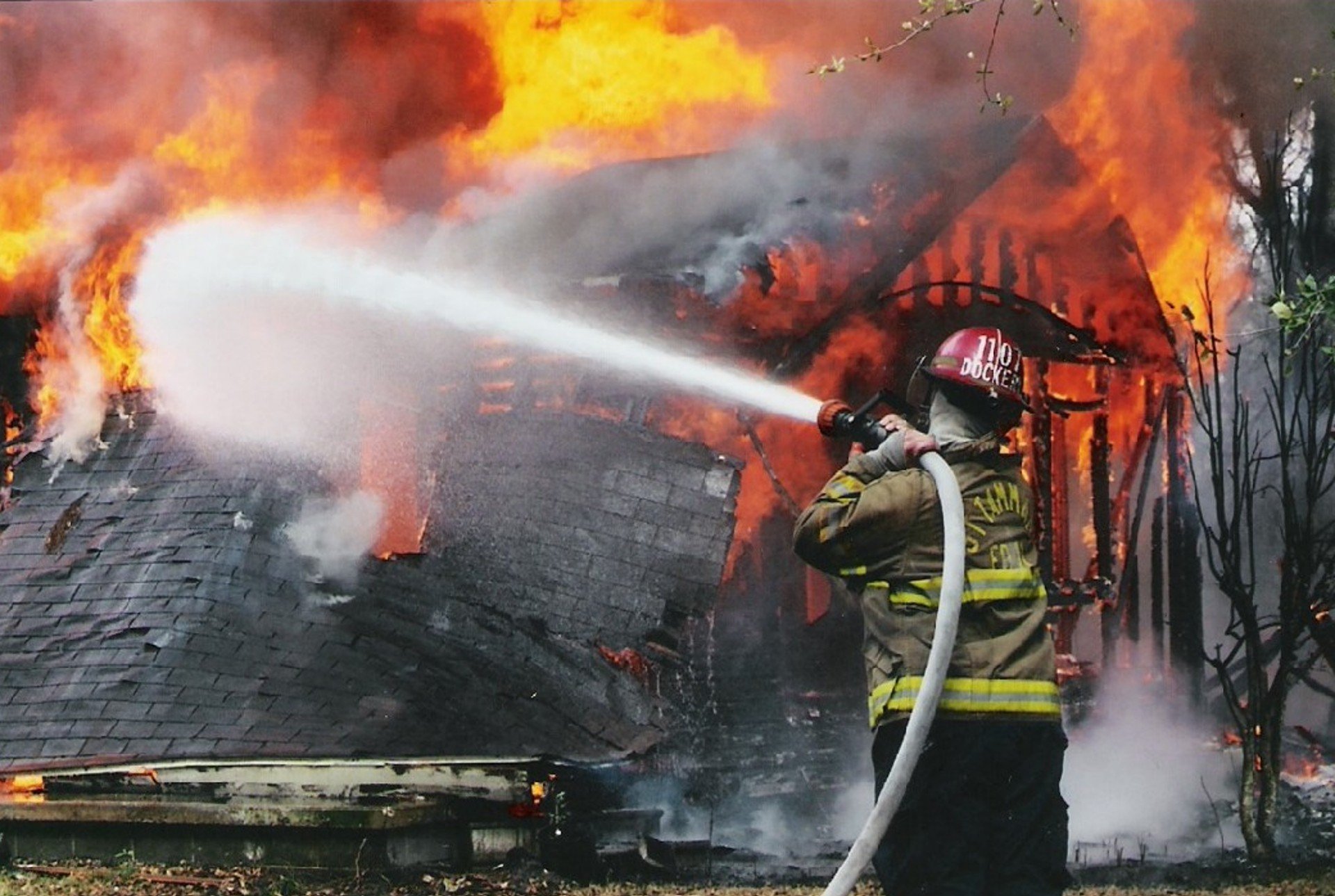 Fire fighters working on a house fire in Pearl River Louisiana